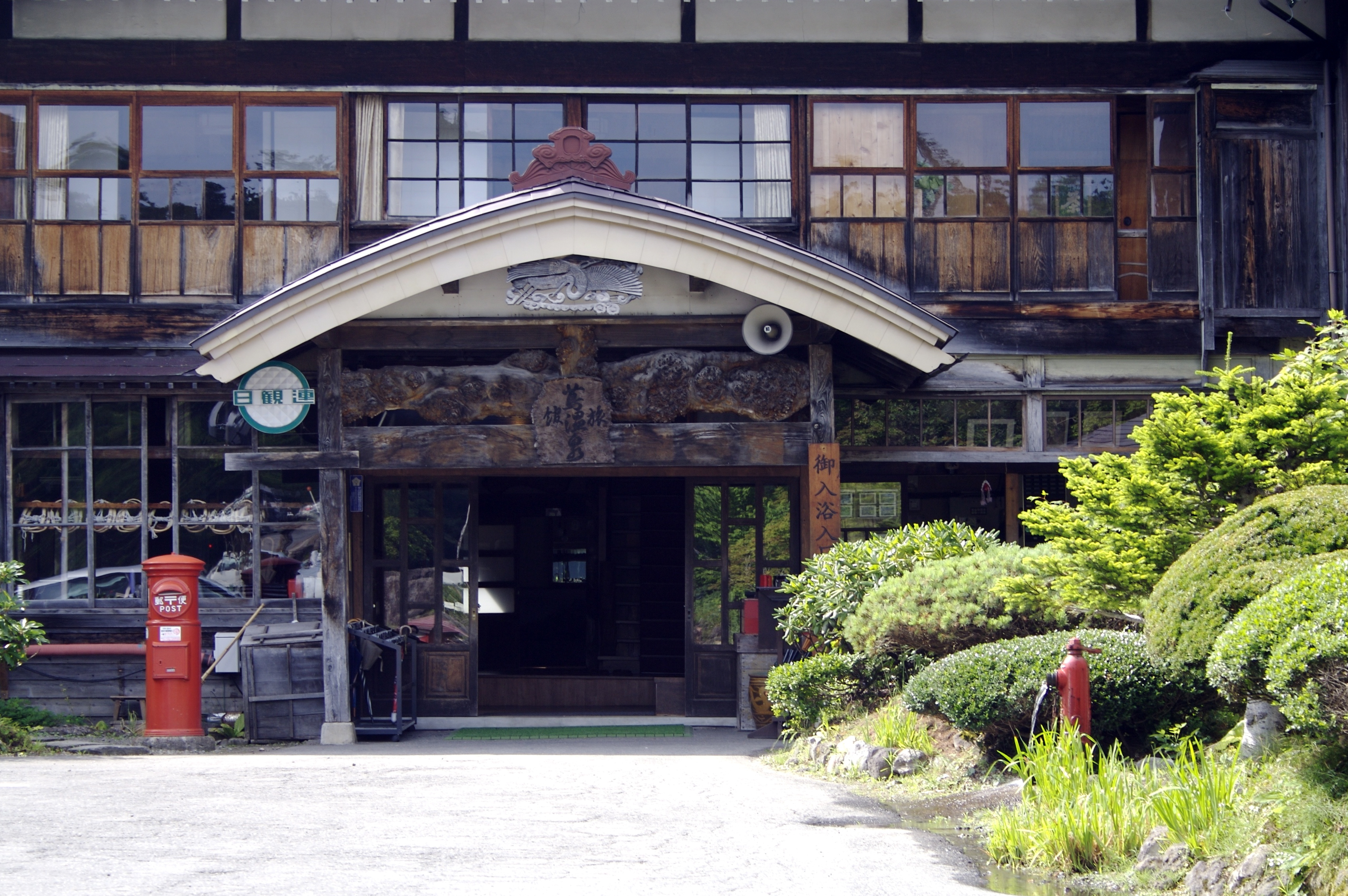 The facade of Tsuta Onsen. Canon EOS Kiss Digital N